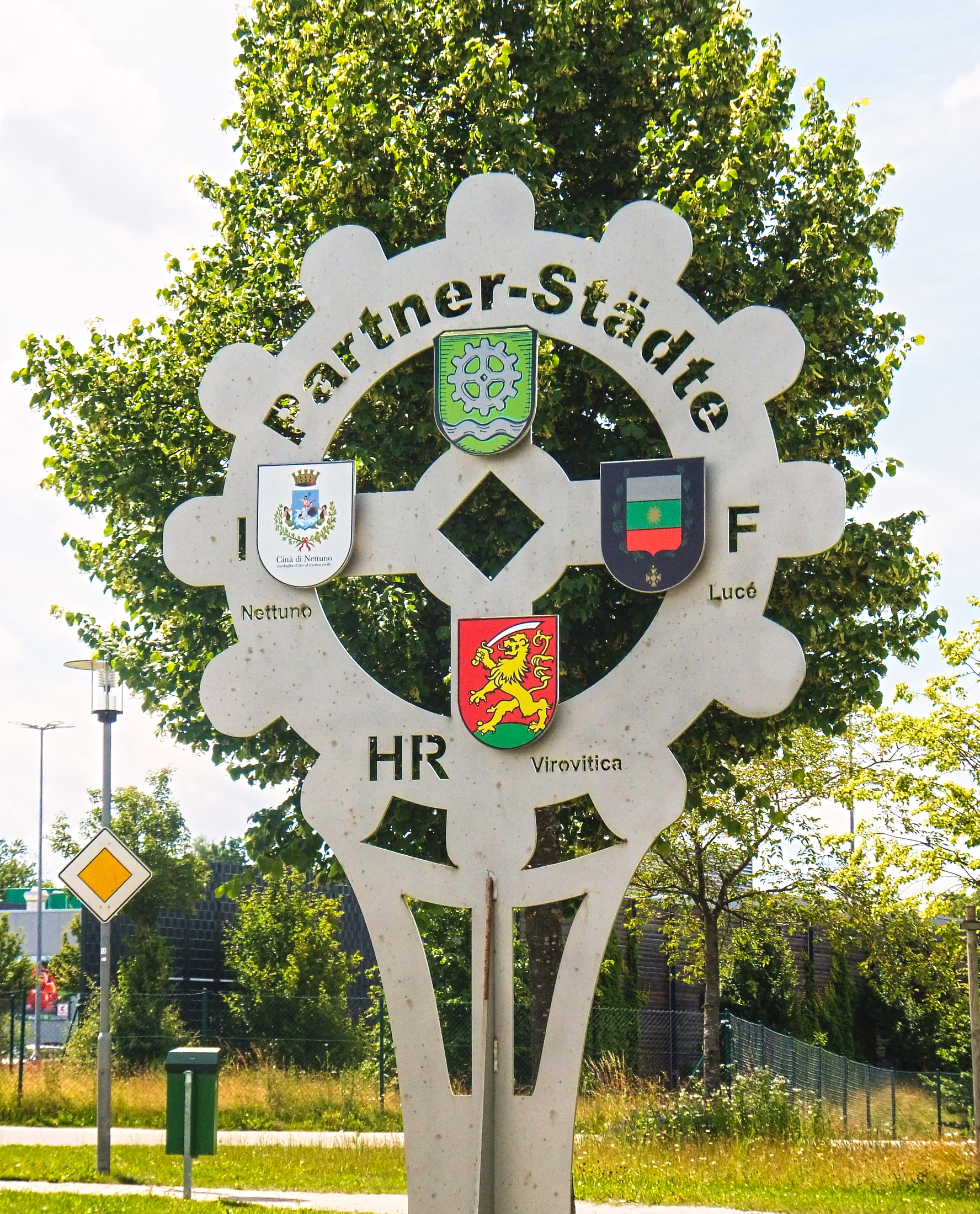 Traunreut, friendship-tree on entrance to town, name and blazon of twin towns